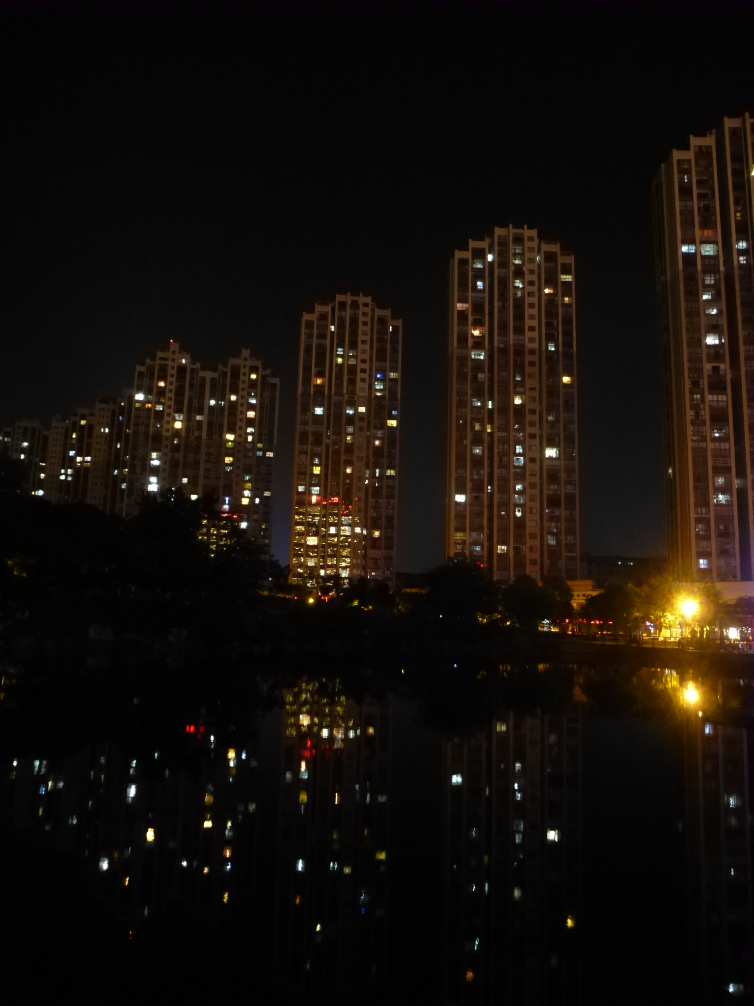 Night view of Xinyu